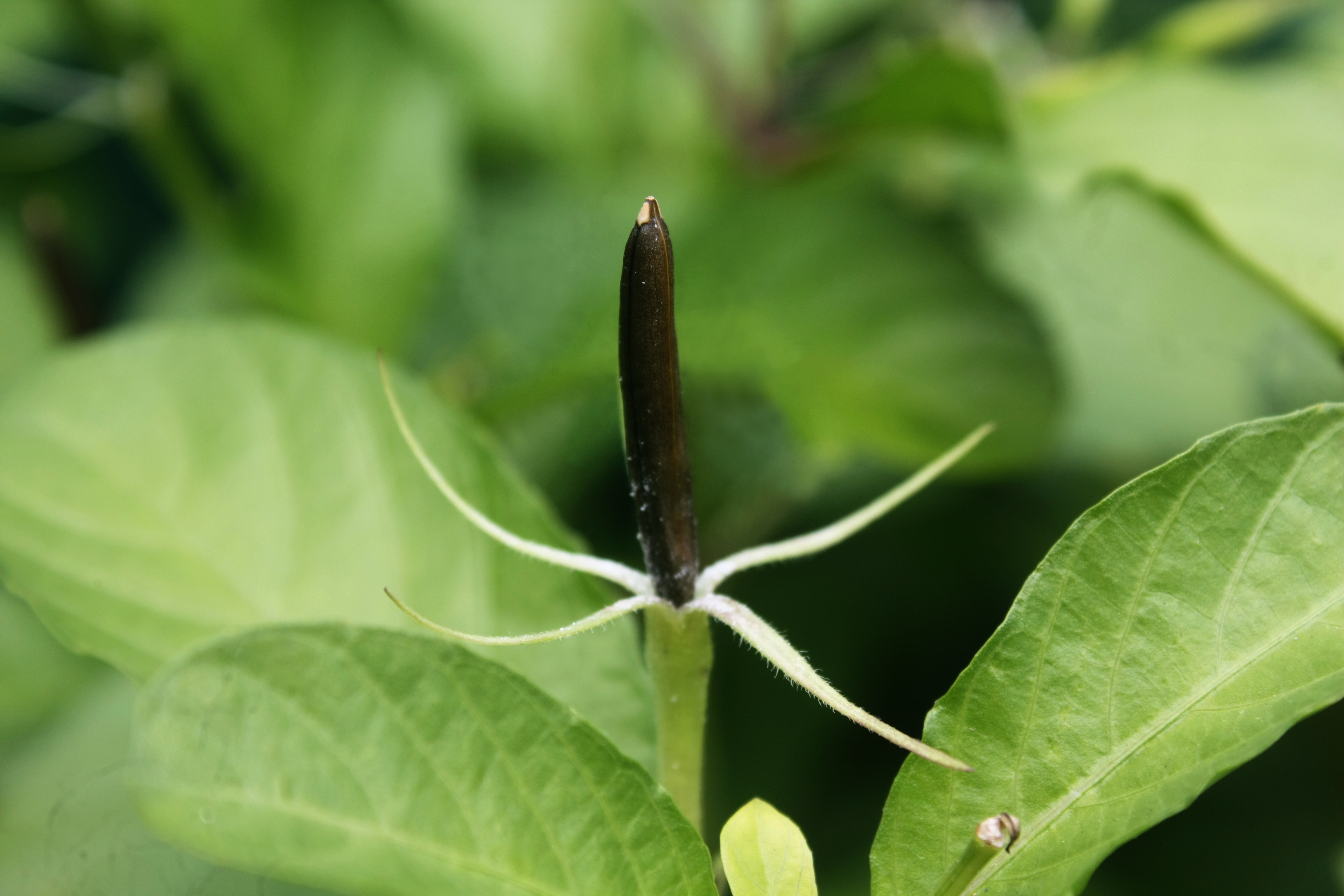 A dry popping pod in a Ruellia tuberosa tree. When rub dry pod with saliva or water, it can crack and create pop sound.